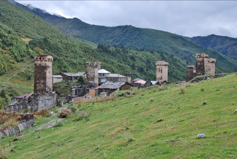 Ushguli Svaneti